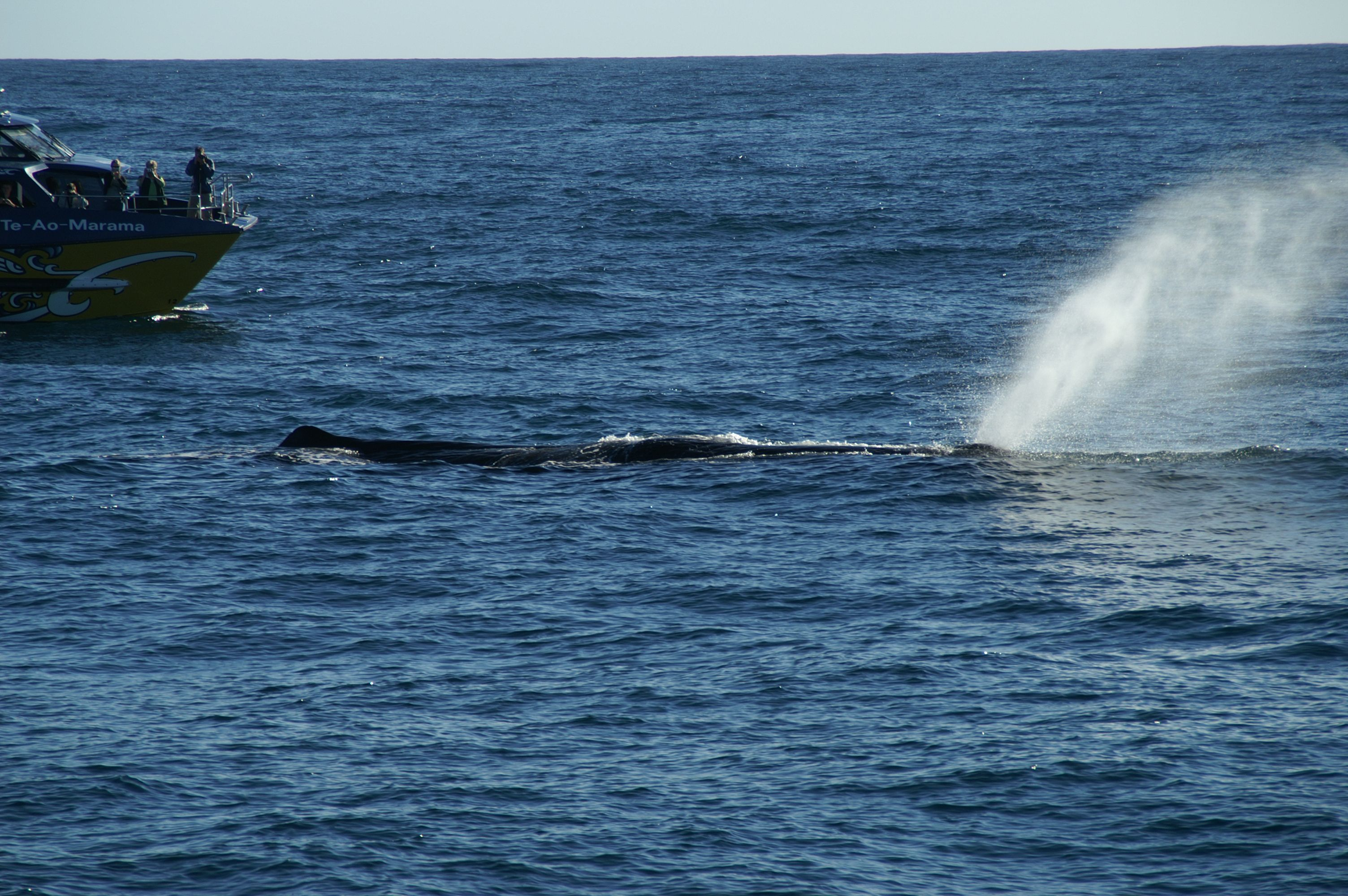 Whale Watch at Kaikoura